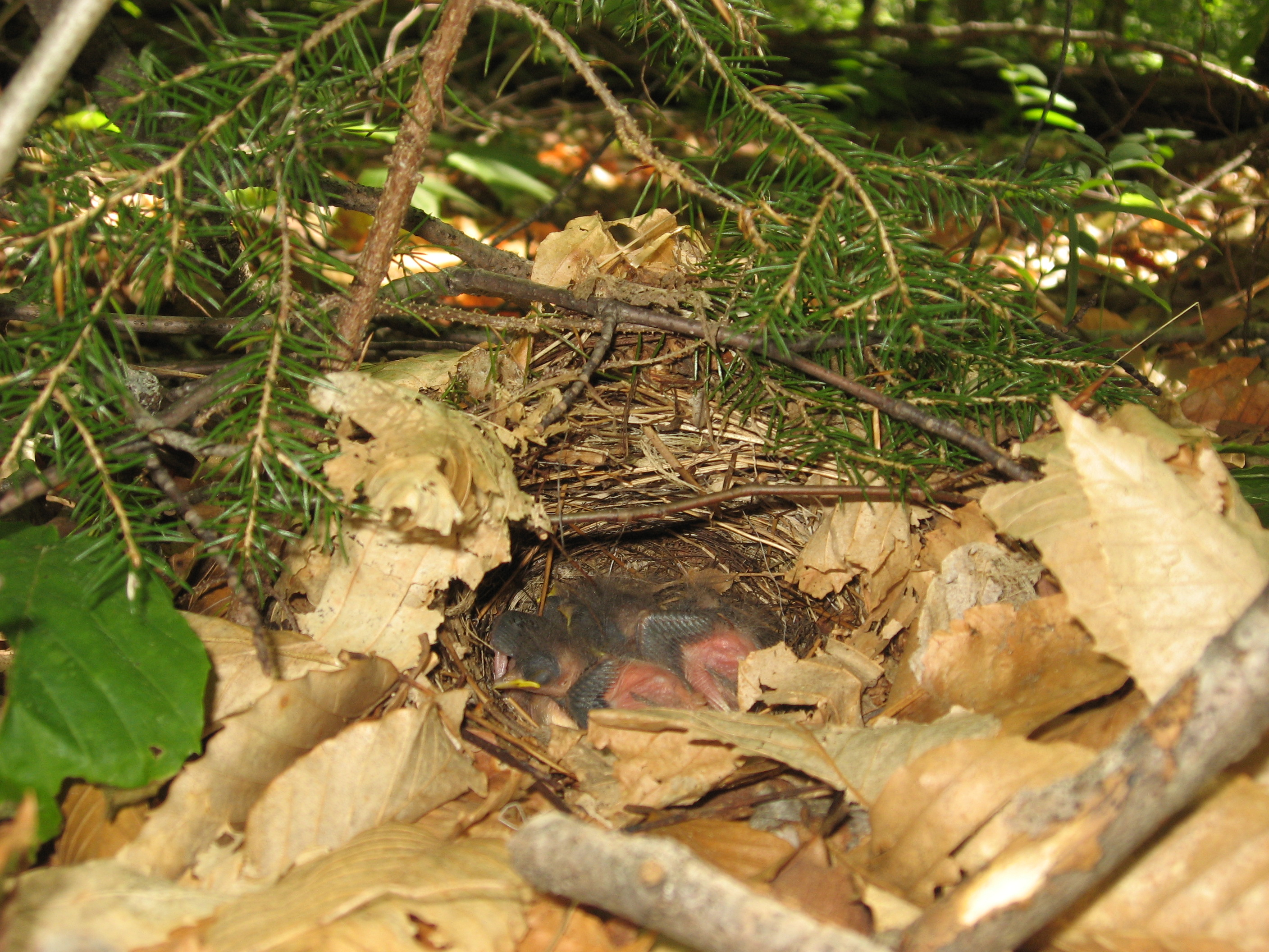 A Seiurus aurocapilla (ovenbird) nest at the Bear Brook Watershed on Lead Mountain, Maine.